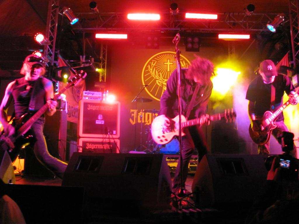 Thomas Geddes, taken at Sonisphere Knebworth 2010